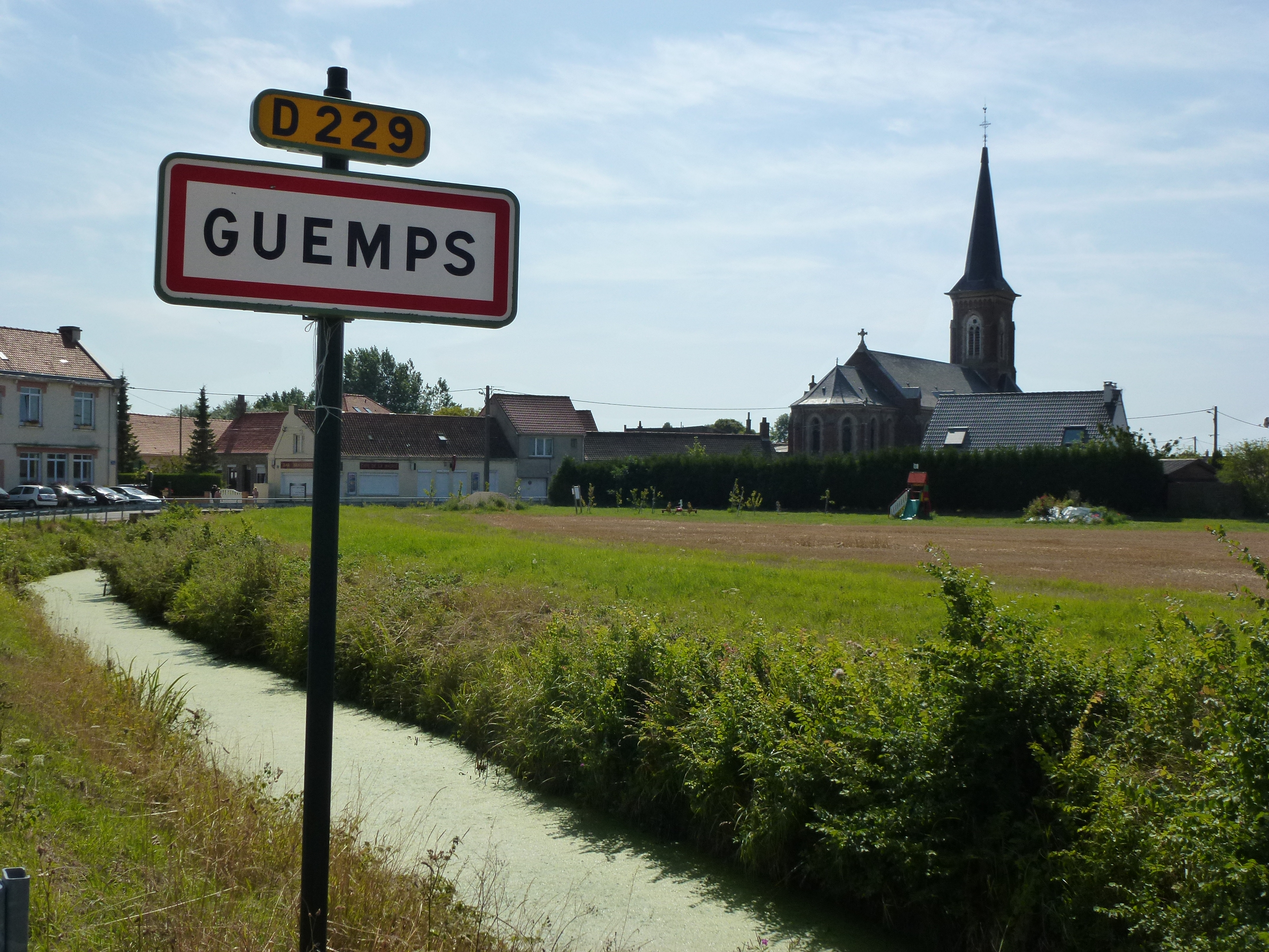 Guemps (Pas-de-Calais) city limit sign